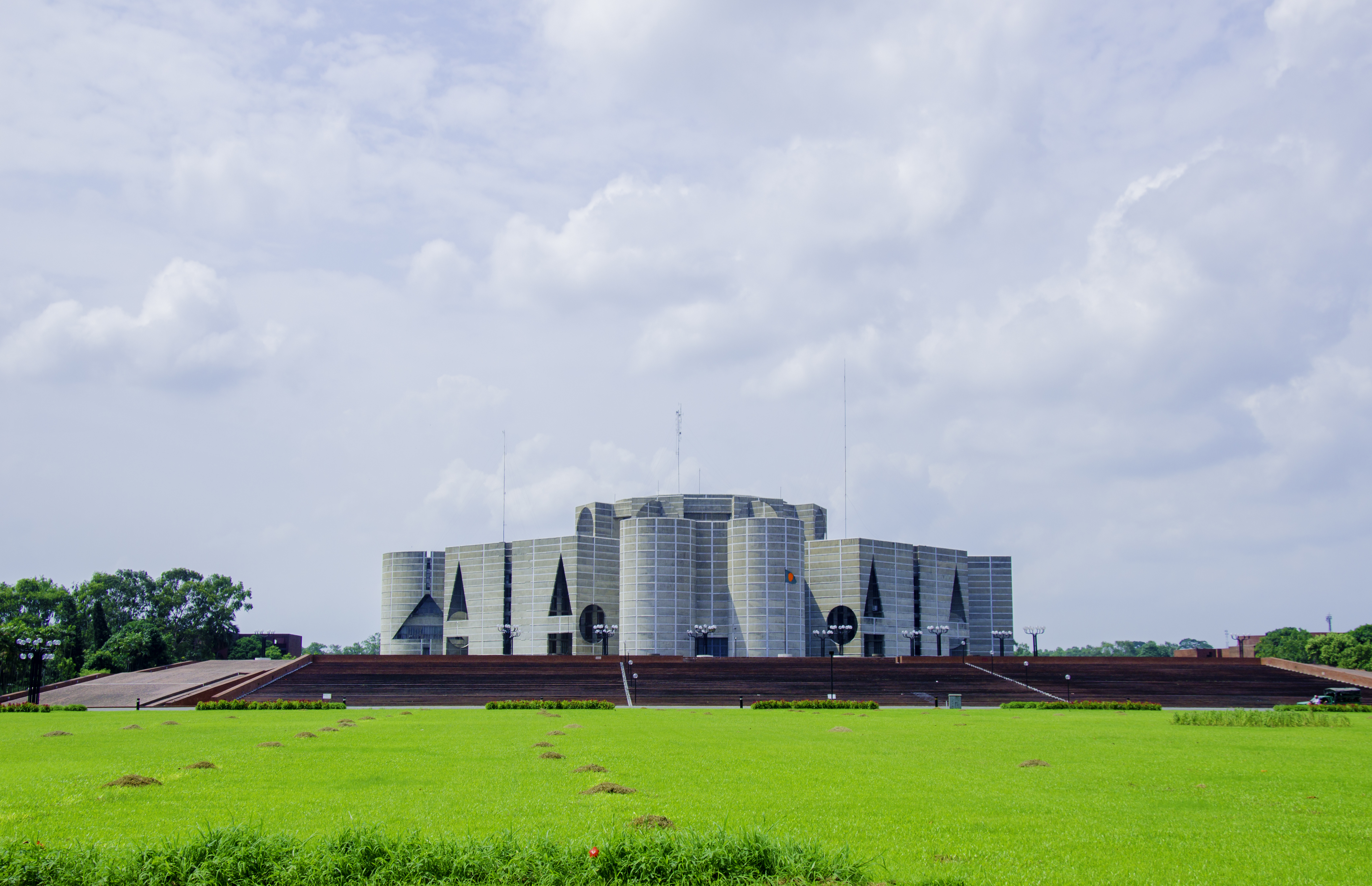 Jatiyo Sangsad Bhaban, Bangladesh.